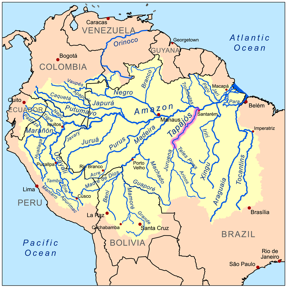 This is a map of the Amazon River drainage basin with the Tapajós River highlighted.